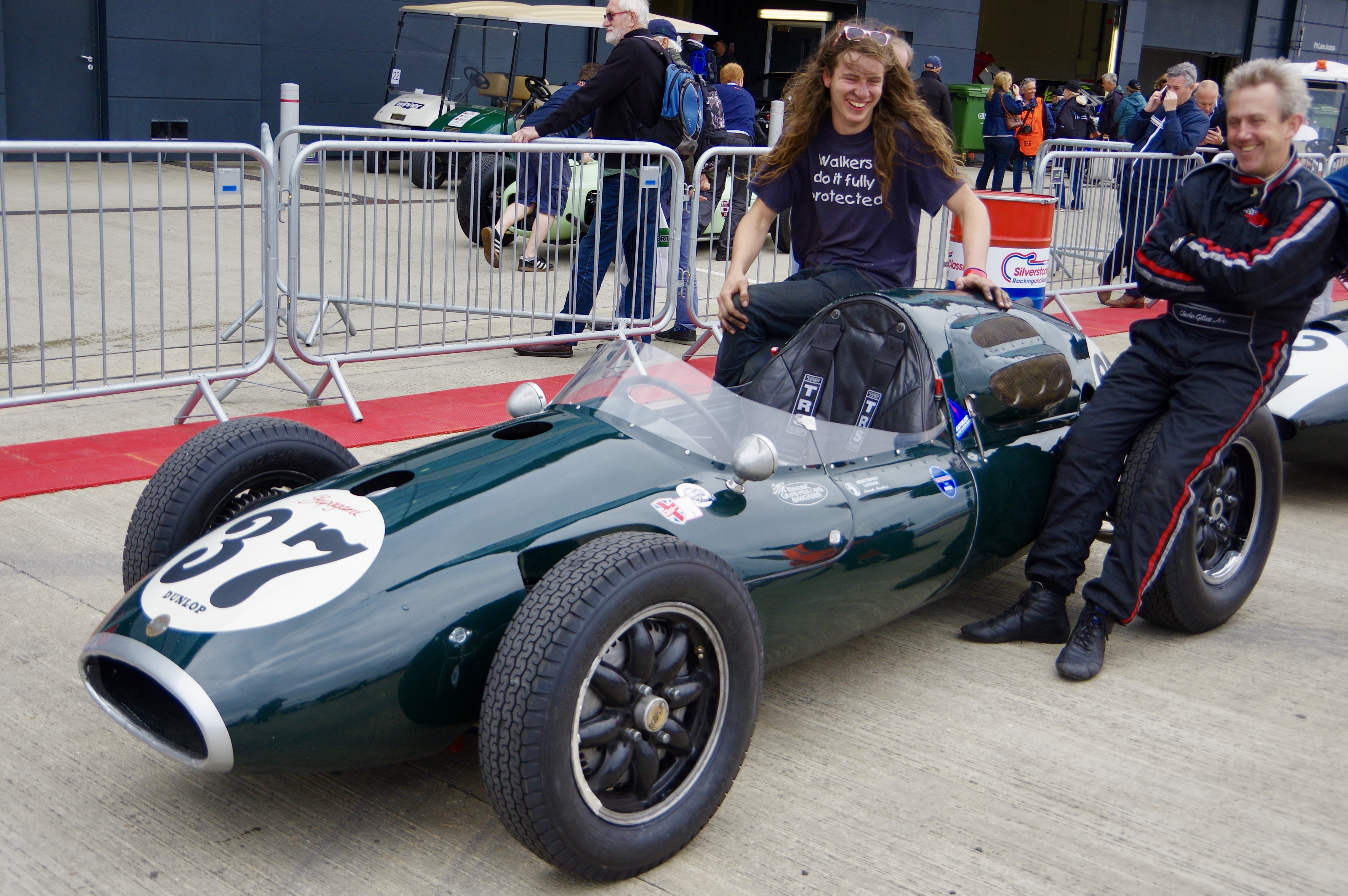 Cooper T43 2017 Silverstone Classic.